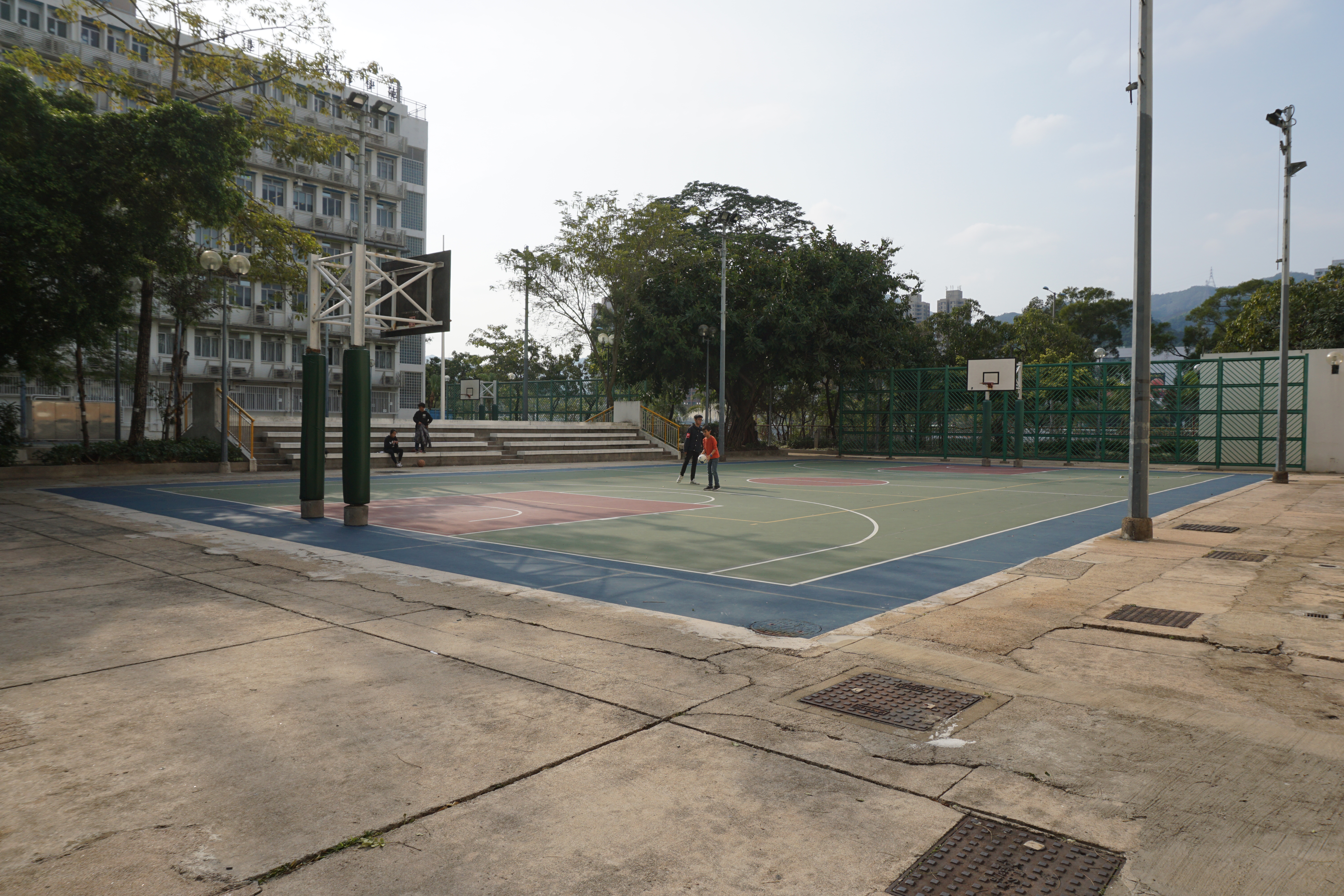 Sha Kok Estate in Sha Tin Wai, Hong Kong.